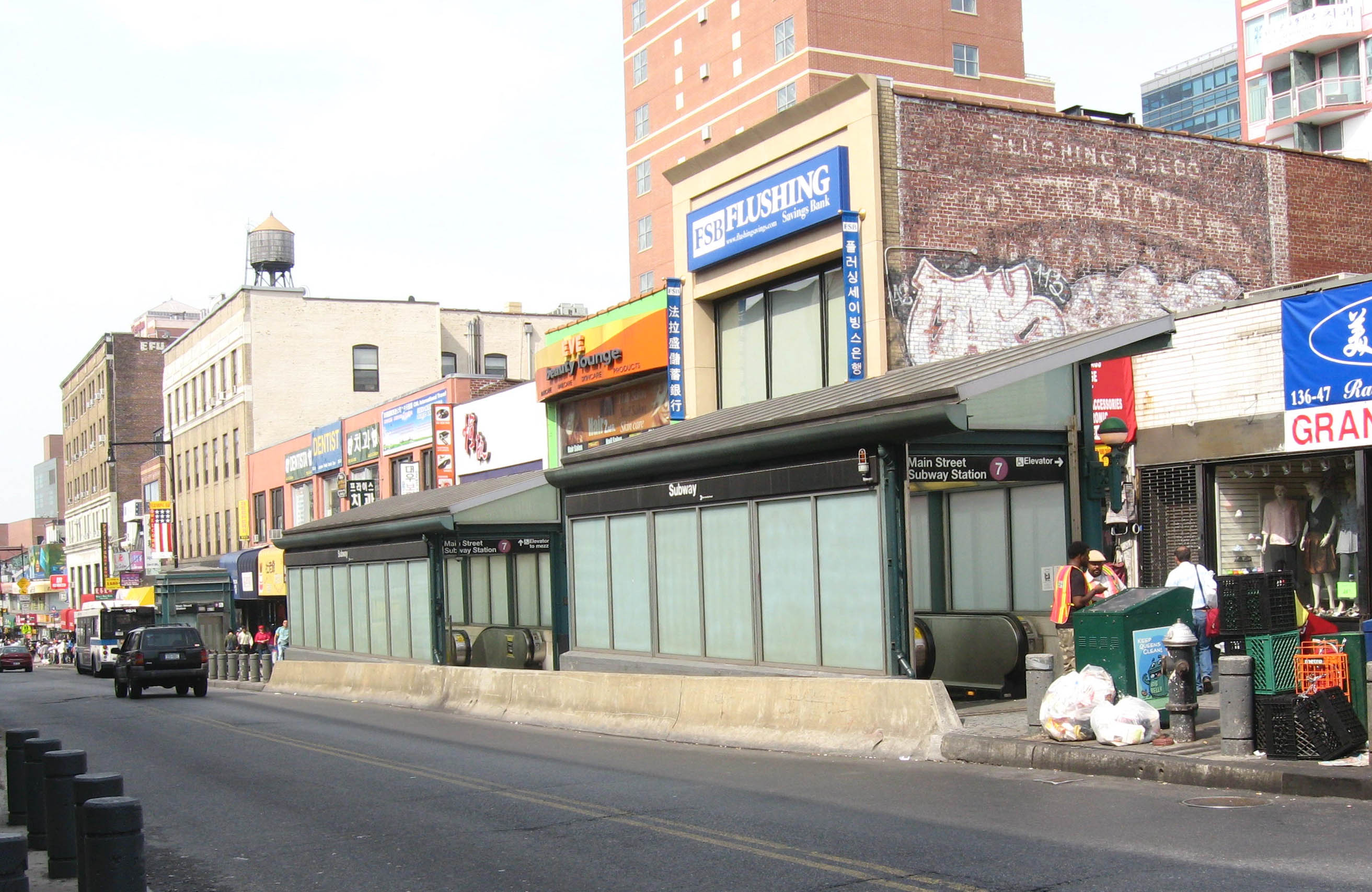 Looking west on Roosevelt Avenue at the Flushing–Main Street station entrance's eastern escalators and elevators on a hazy late morning